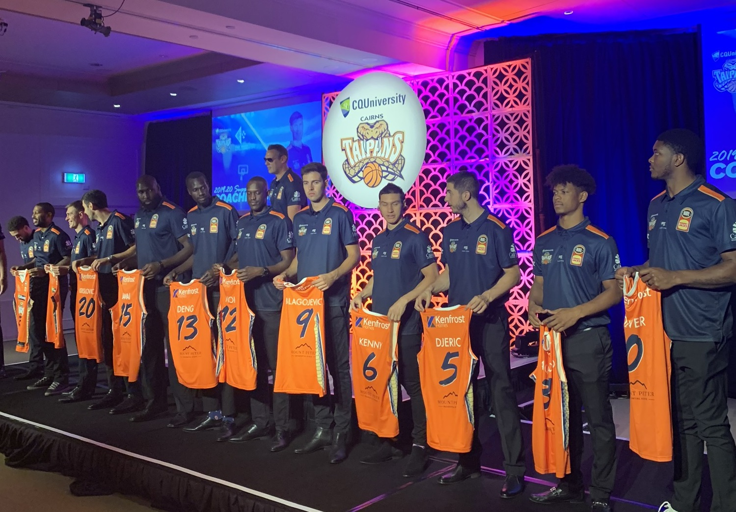 2019–20 Cairns Taipans squad